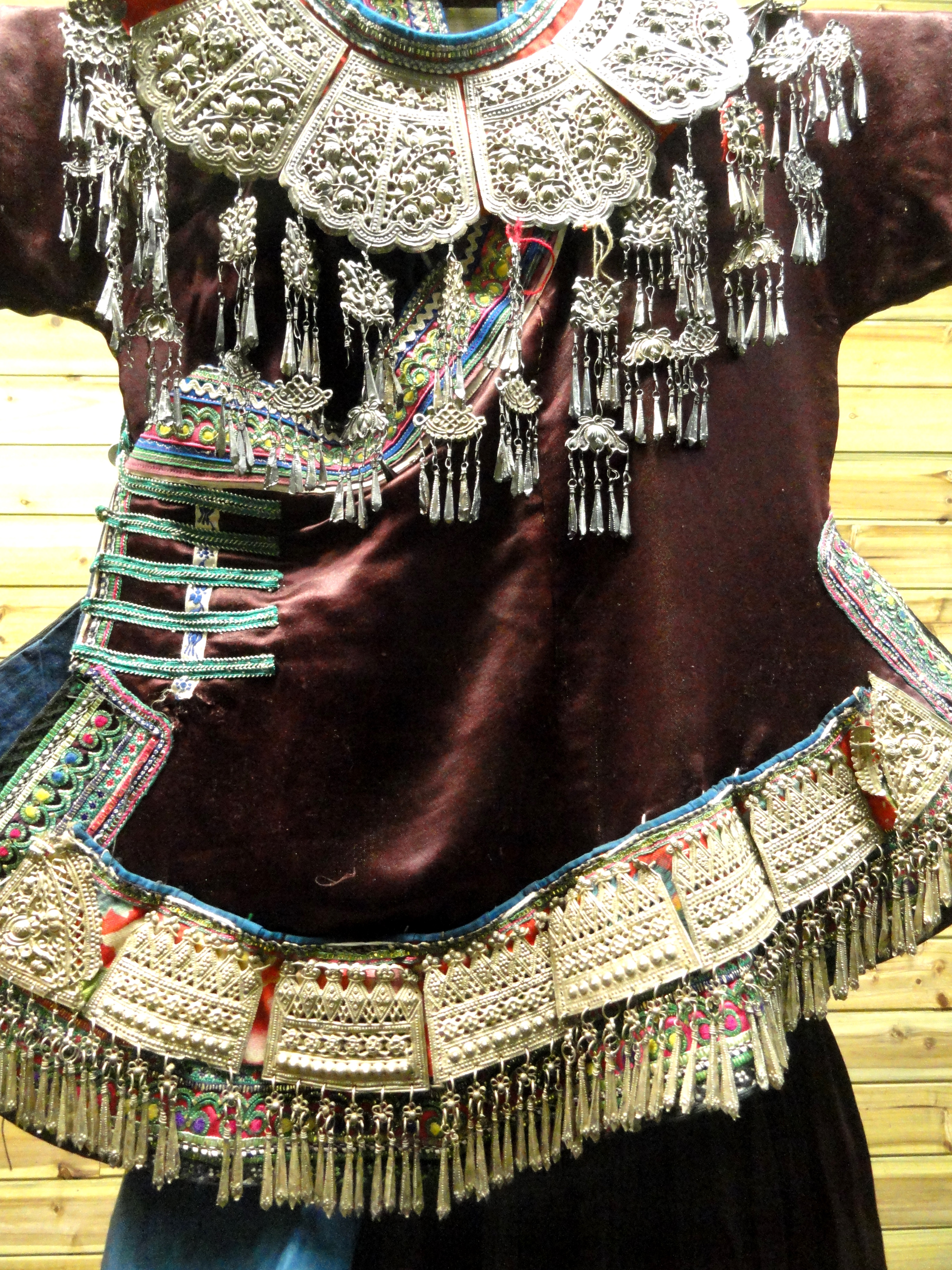 Zhuang woman embroidered, silver-ornamented dress detail. Clothing exhibited in the Yunnan Nationalities Museum, Kunming, Yunnan, China.